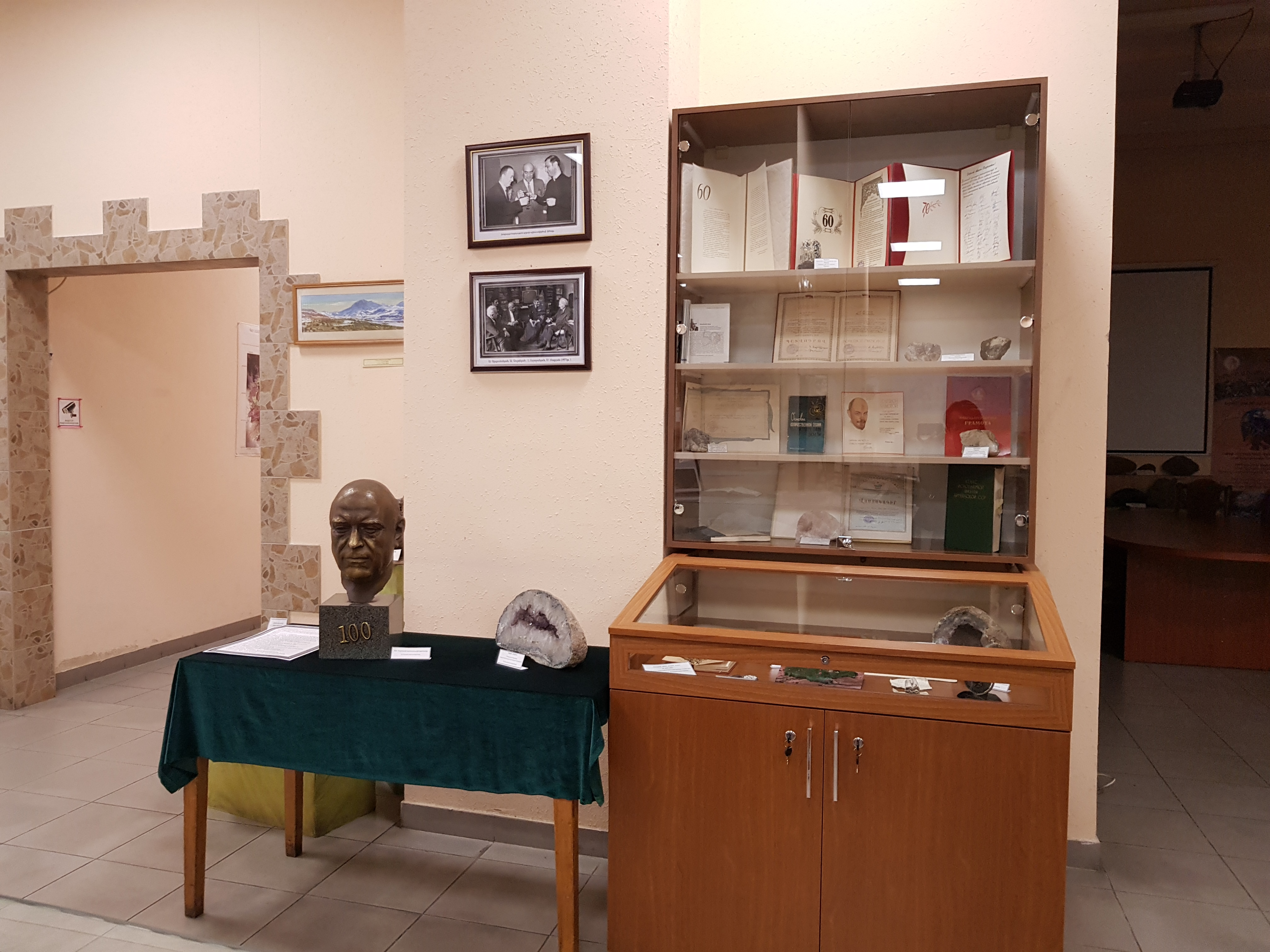 Exhibition devoted to Ashot Aslanyan's 100th anniversary at Geological Museum after H. Karapetyan